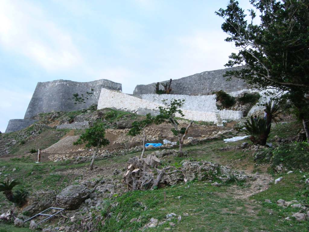 Remains of Katsuren castle, Okinawa, Japan